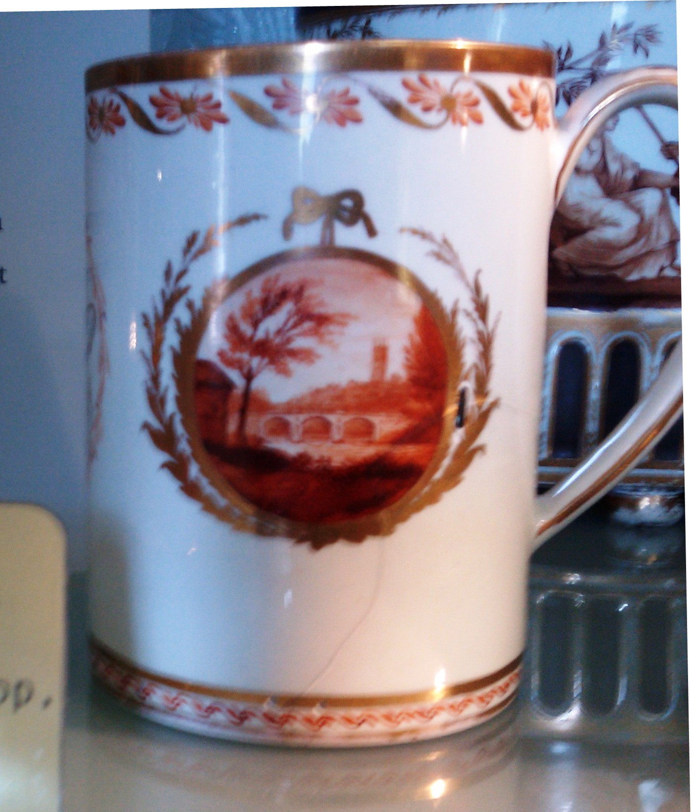 Mug from William Billingsleys work in Mansfield or Lincs. Now in Derby Museum and Art Gallery